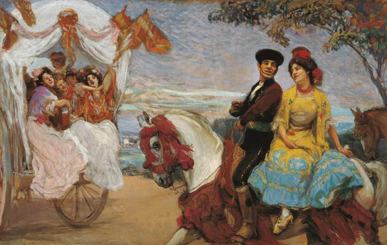 Romeria (Pilgrimage)